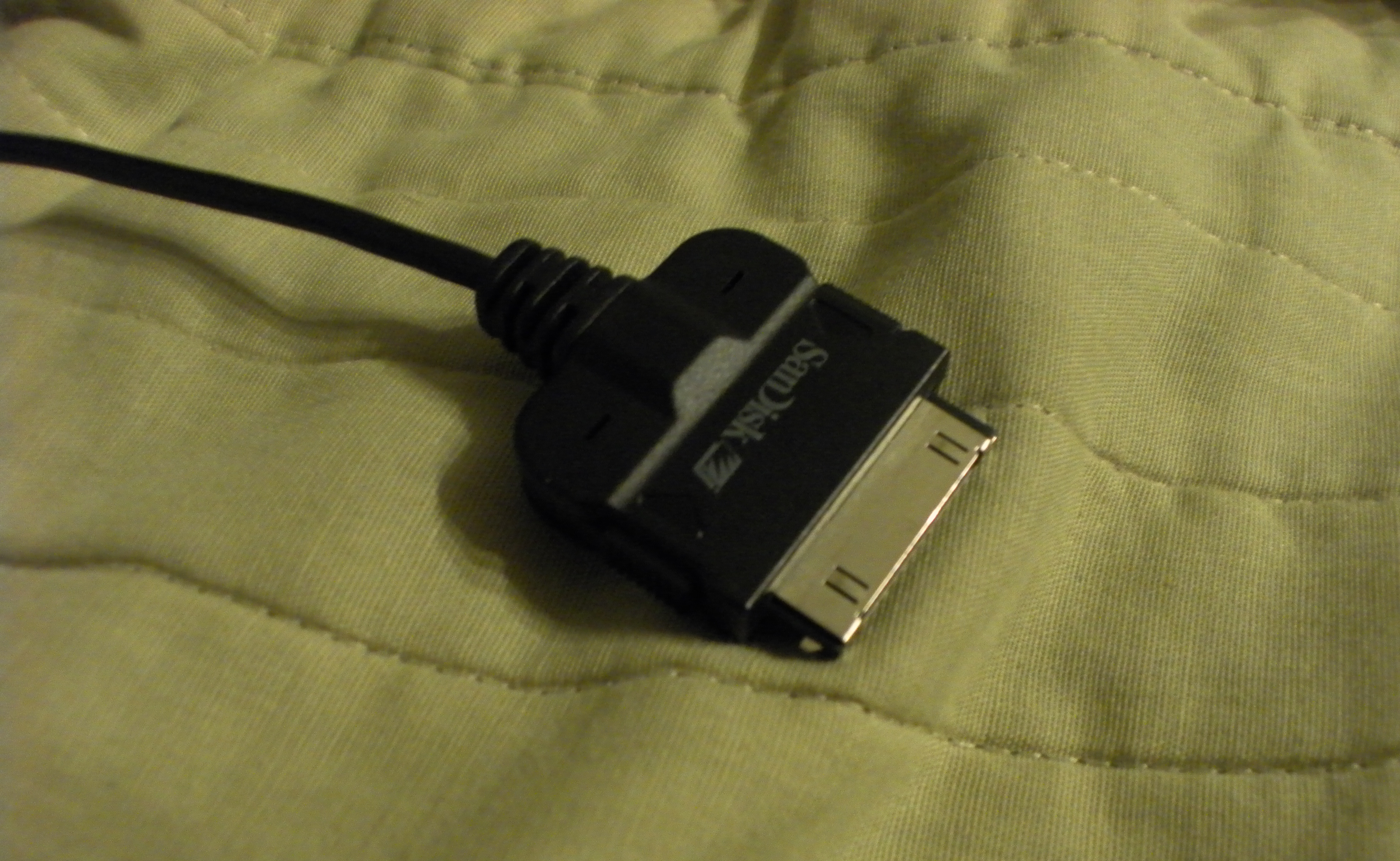 A close-up image of the proprietary USB connector used by Sandisk on their portable media players